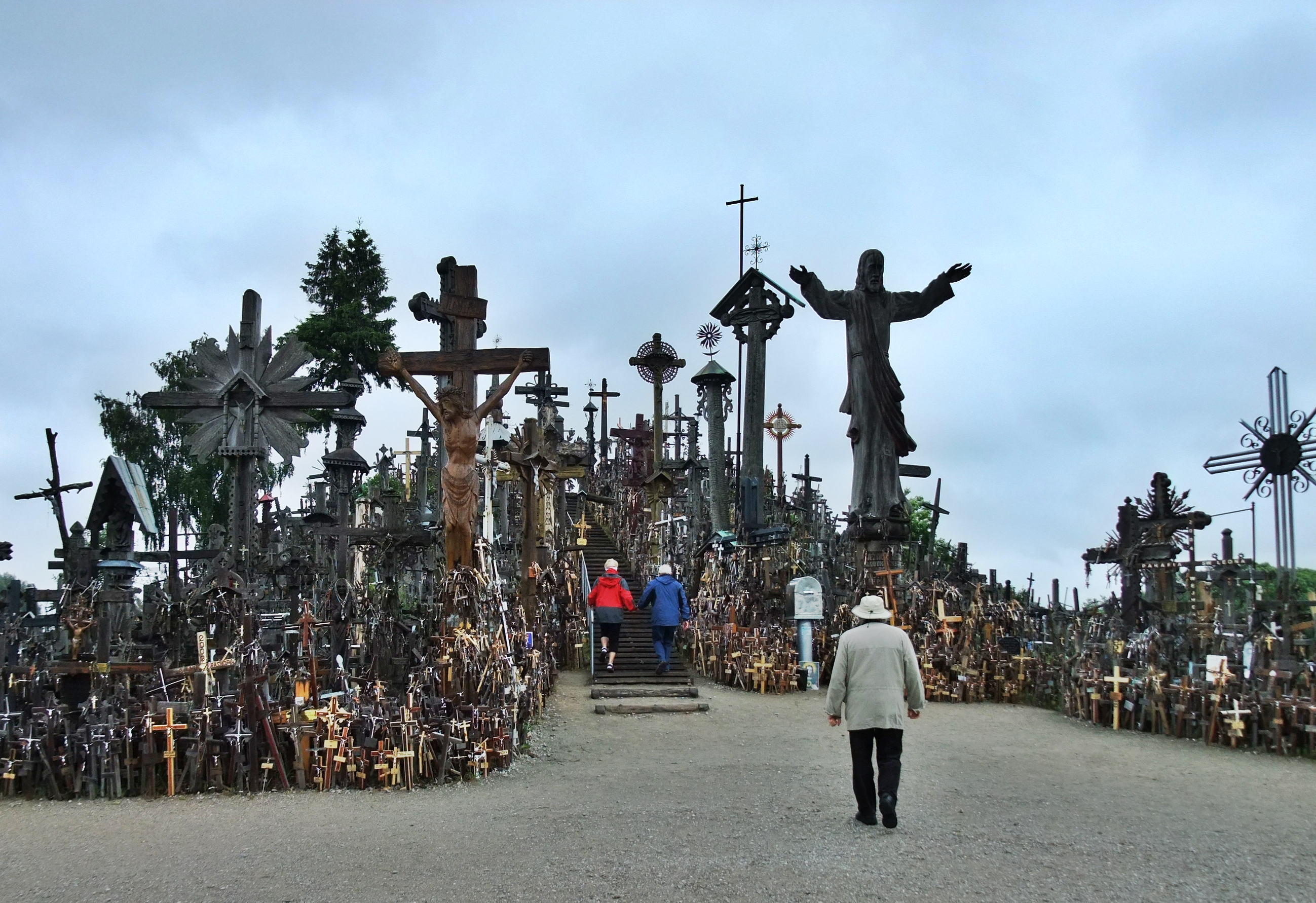 Hill of Crosses in Lithuania